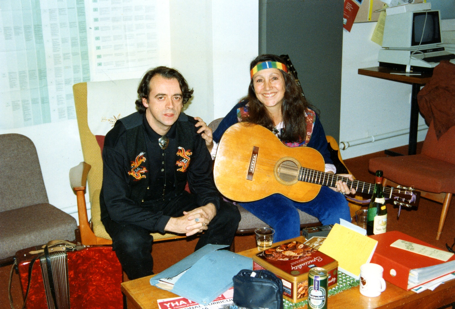 Photograph of Bill Lewis and Julie Felix